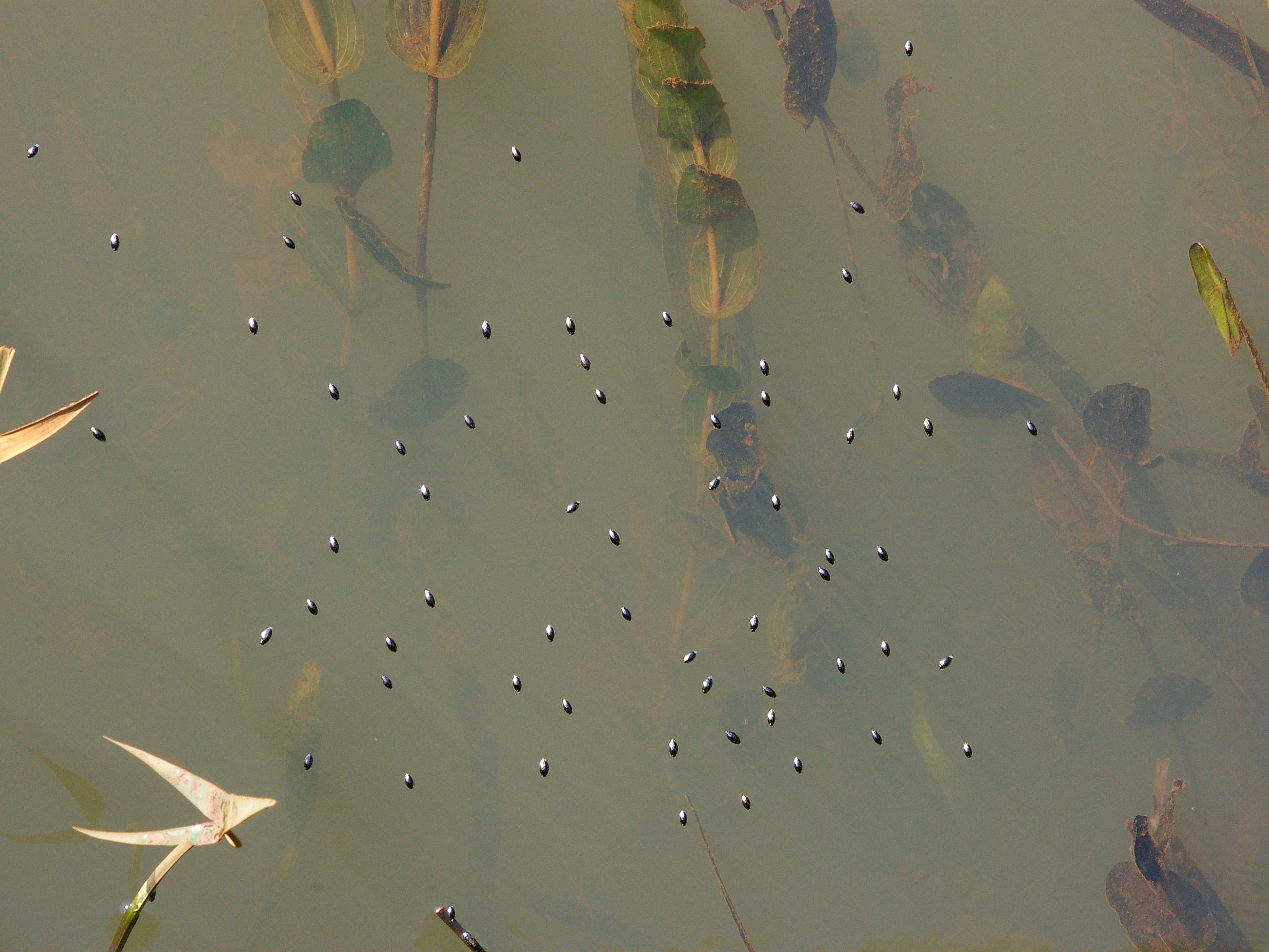 A group of Whirligig Beetle, Gyrinus spec., on the surface of a slowly flowing water.